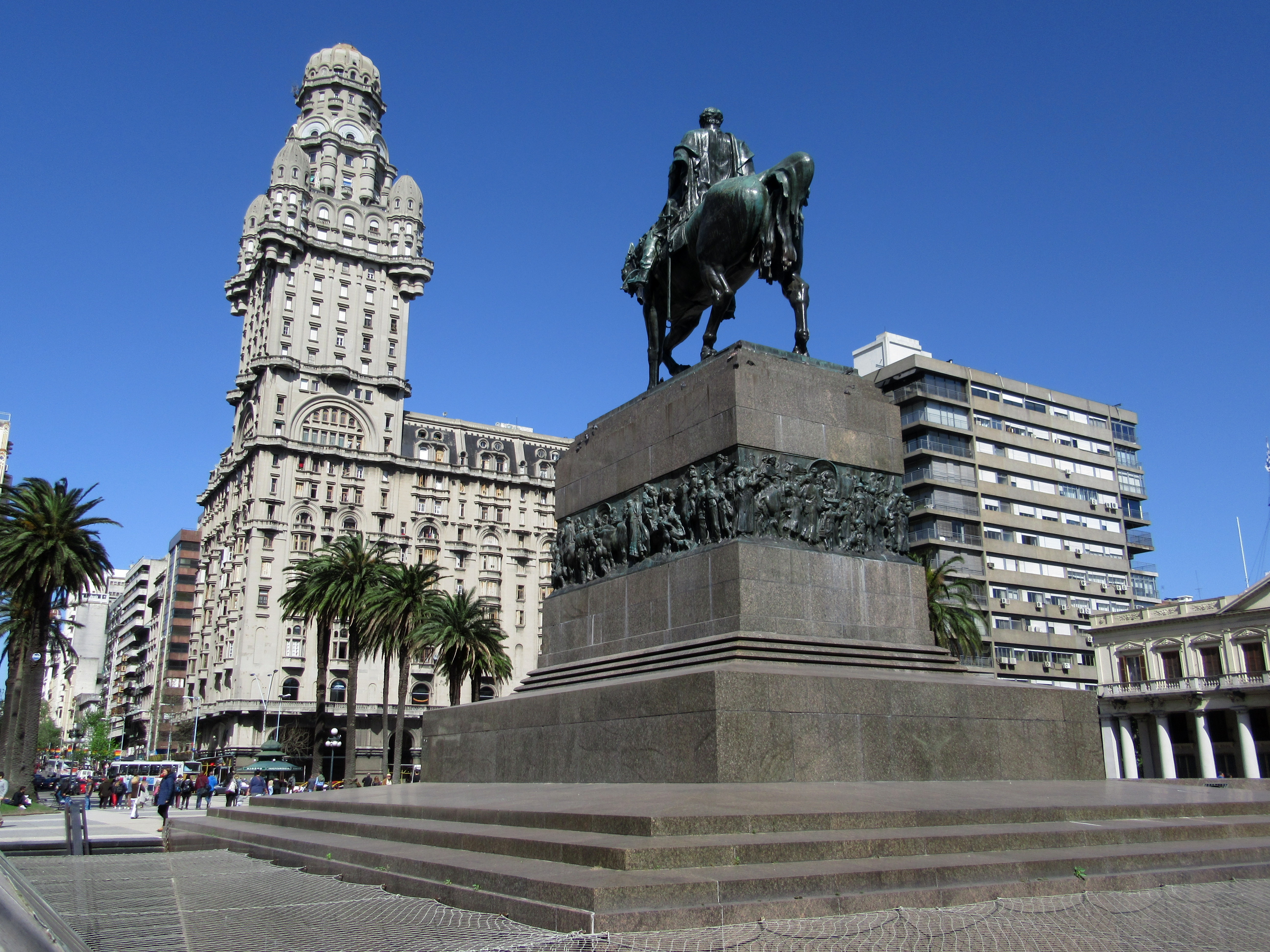 Montevideo